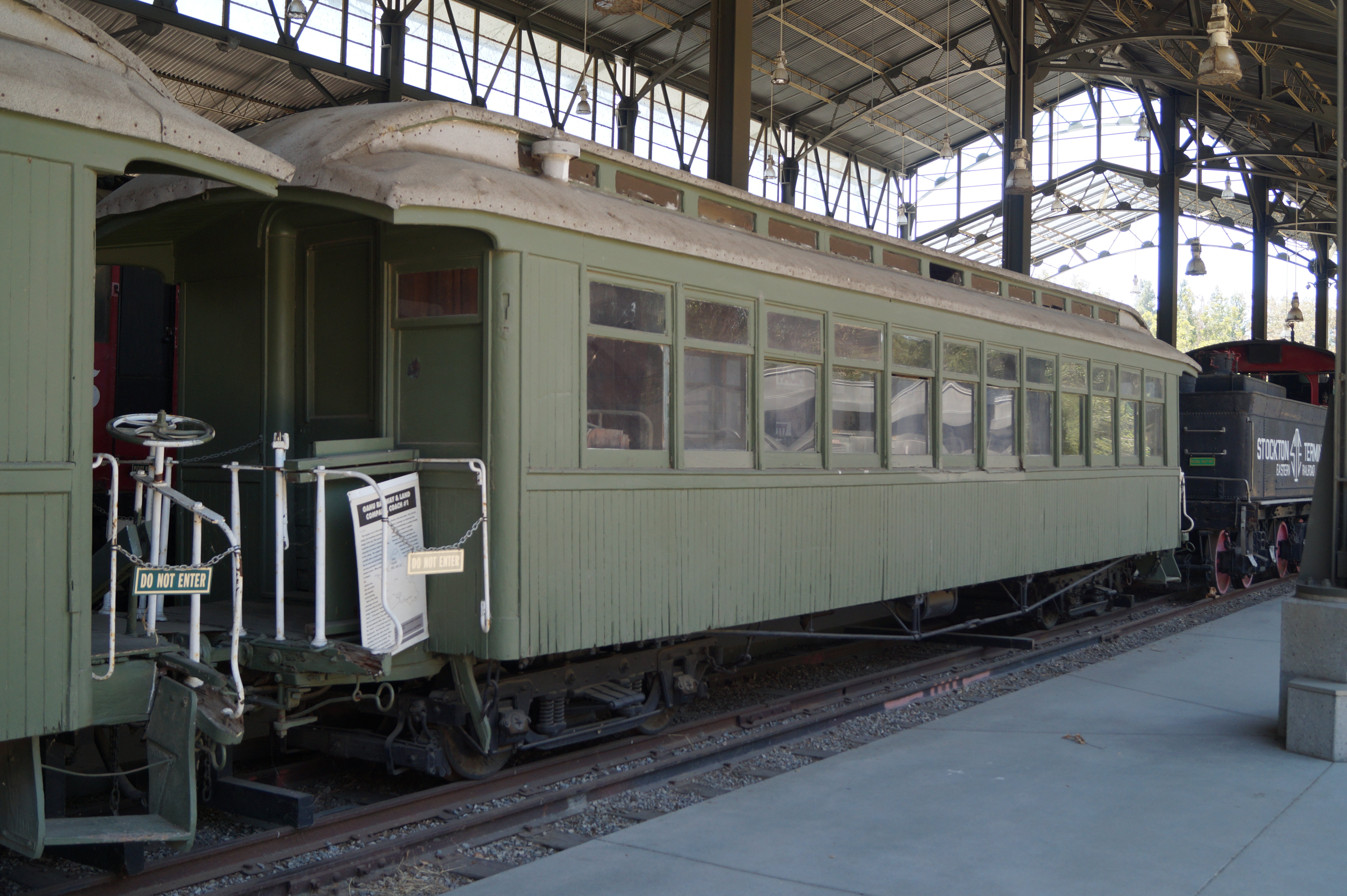 Travel Town Museum is a transport museum dedicated in the northwest corner of Los Angeles, California's Griffith Park. The history of railroad transportation in the western United States from 1880 to the 1930s is the primary focus of the museum's collection, with an emphasis on railroading in Southern California and the Los Angeles area.